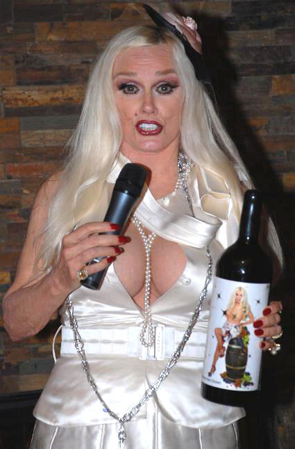 Mamie Van Doren at the launch of her new wine